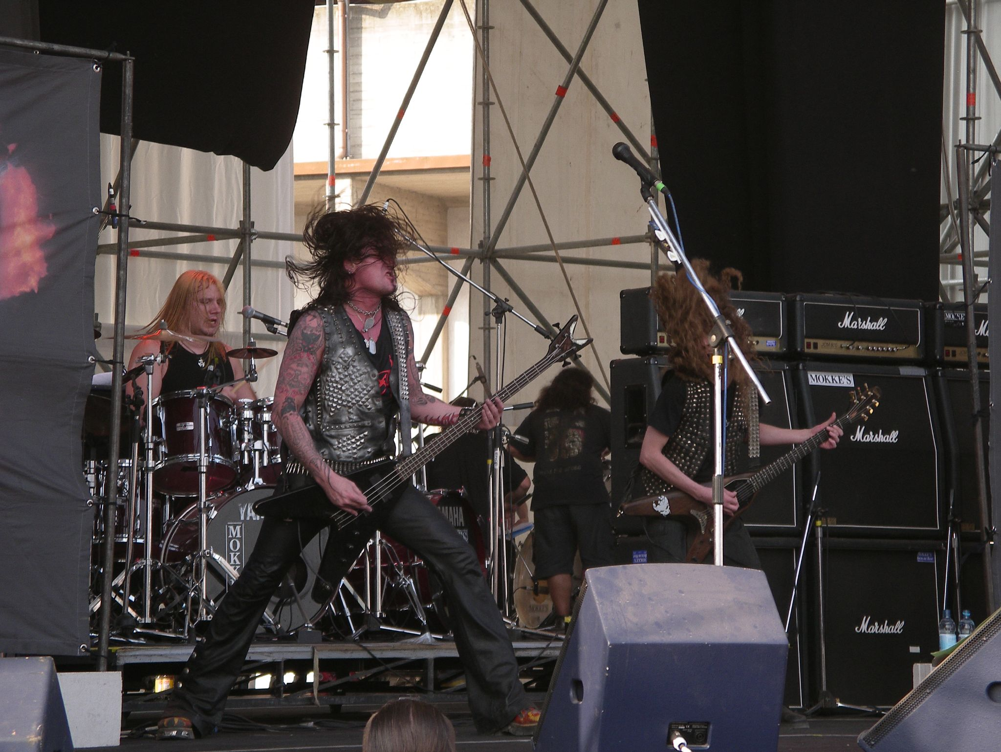 Destruction live at Trasdate Iron Fest 2005.